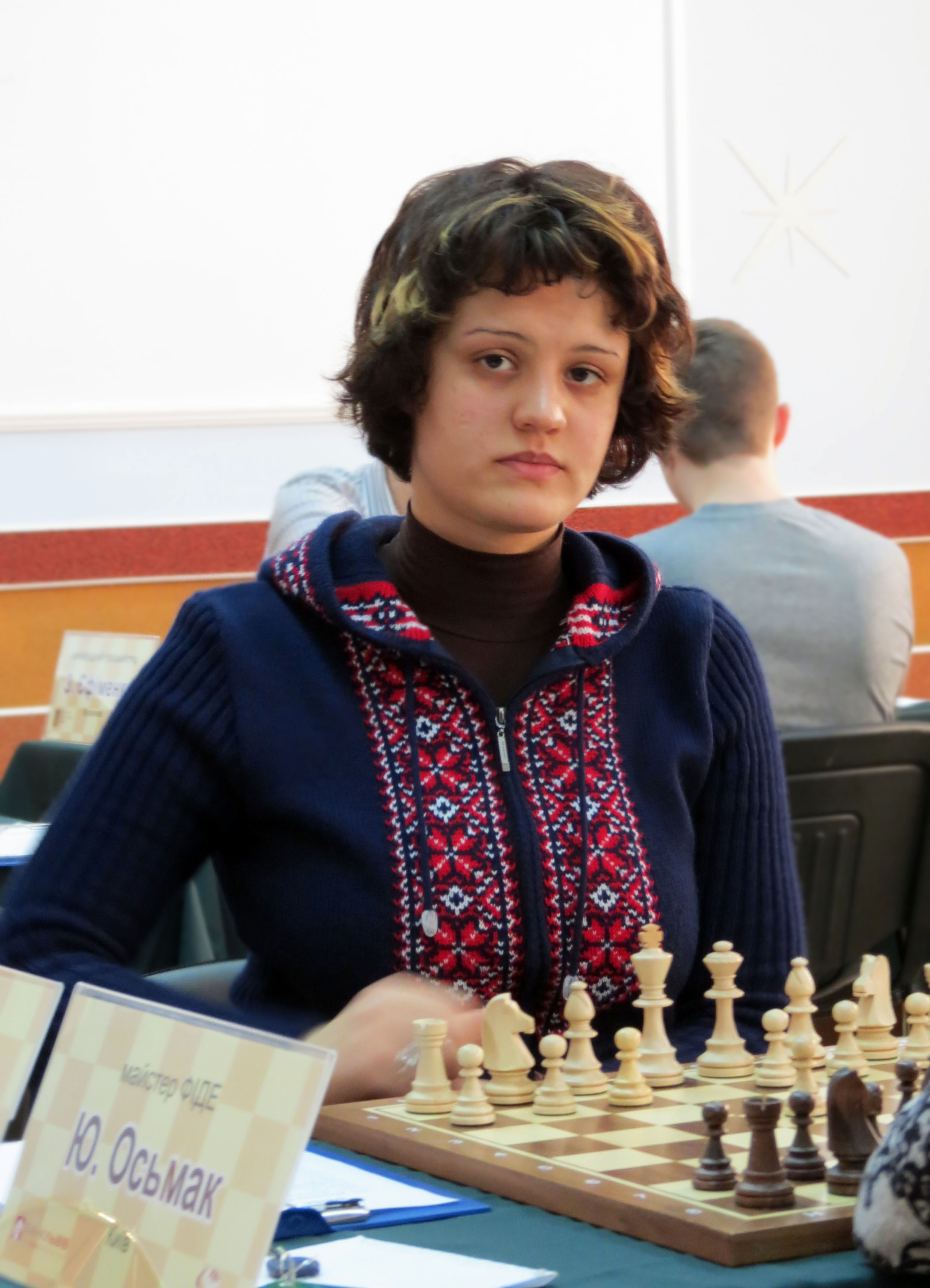 Kateryna Dolzhykova Ukrainian championship 2015